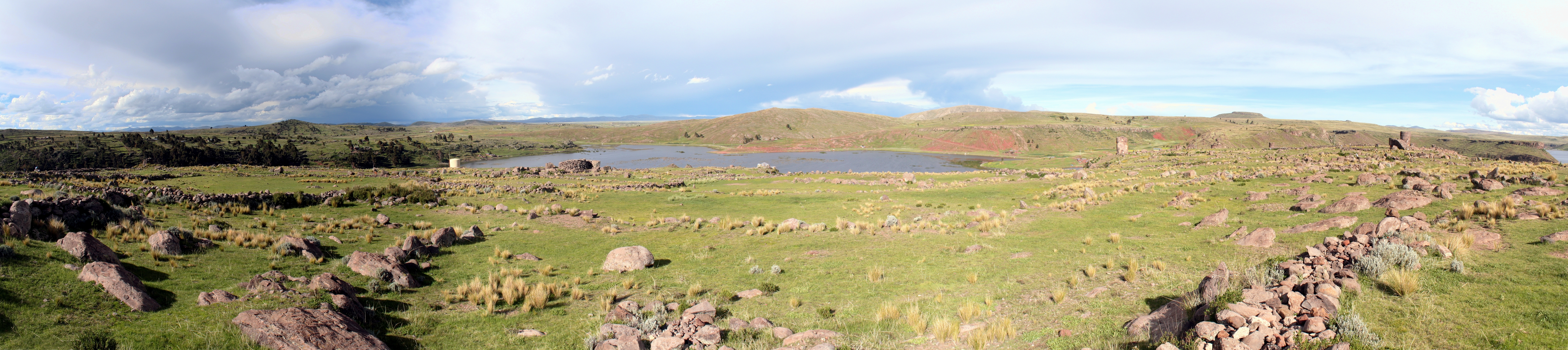 Sillustani / Peru - Overview